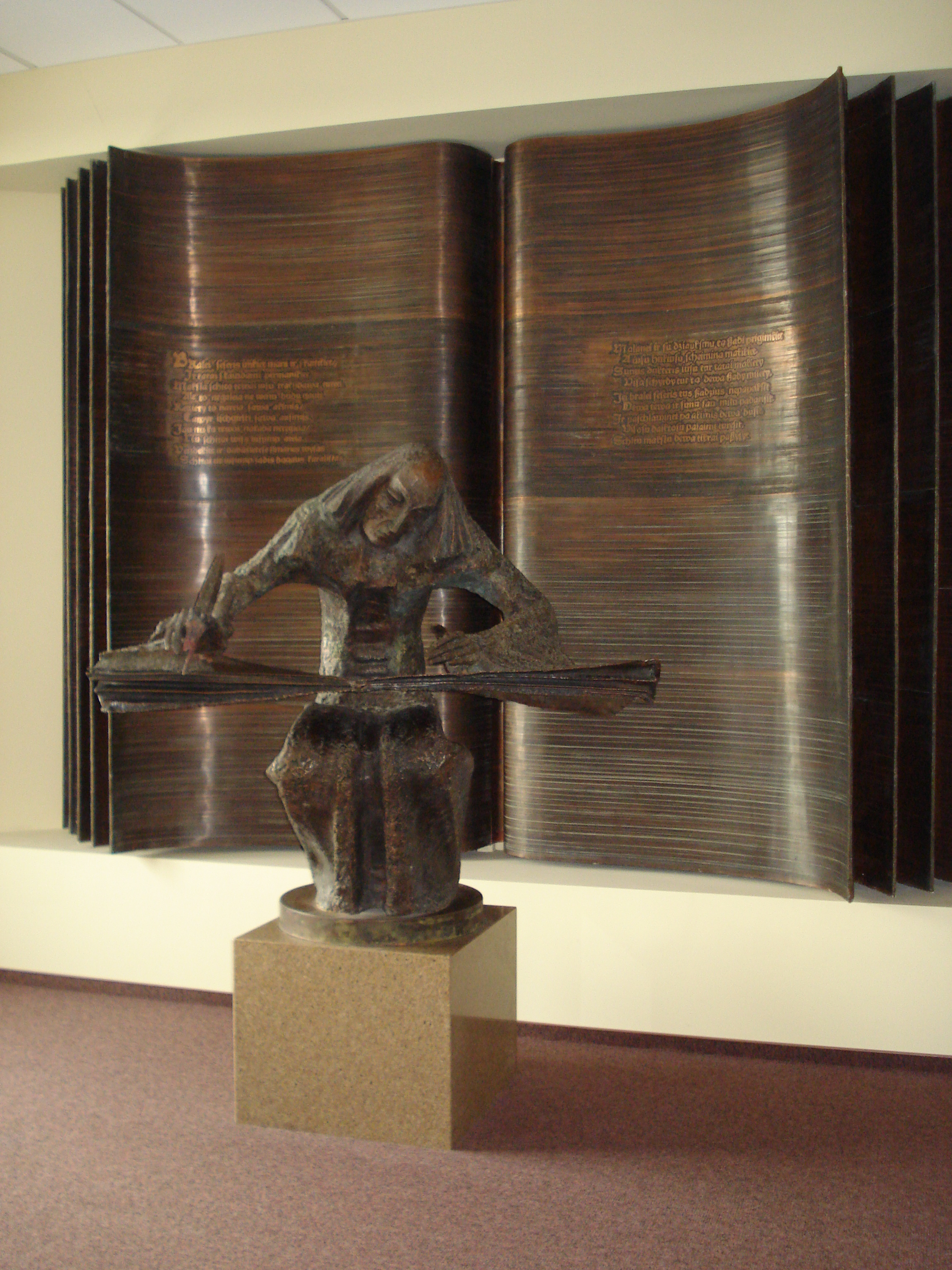 The sculptural composition dedicated to Martynas Mažvydas in the Lithuanian Martynas Mažvydas National Library in Vilnius by sculptor Kazys Kisielius (1997, bronze)